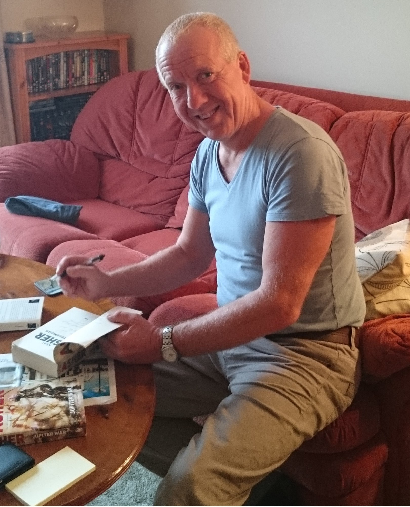 The English author Neal Asher signing copies of his books in 2015.